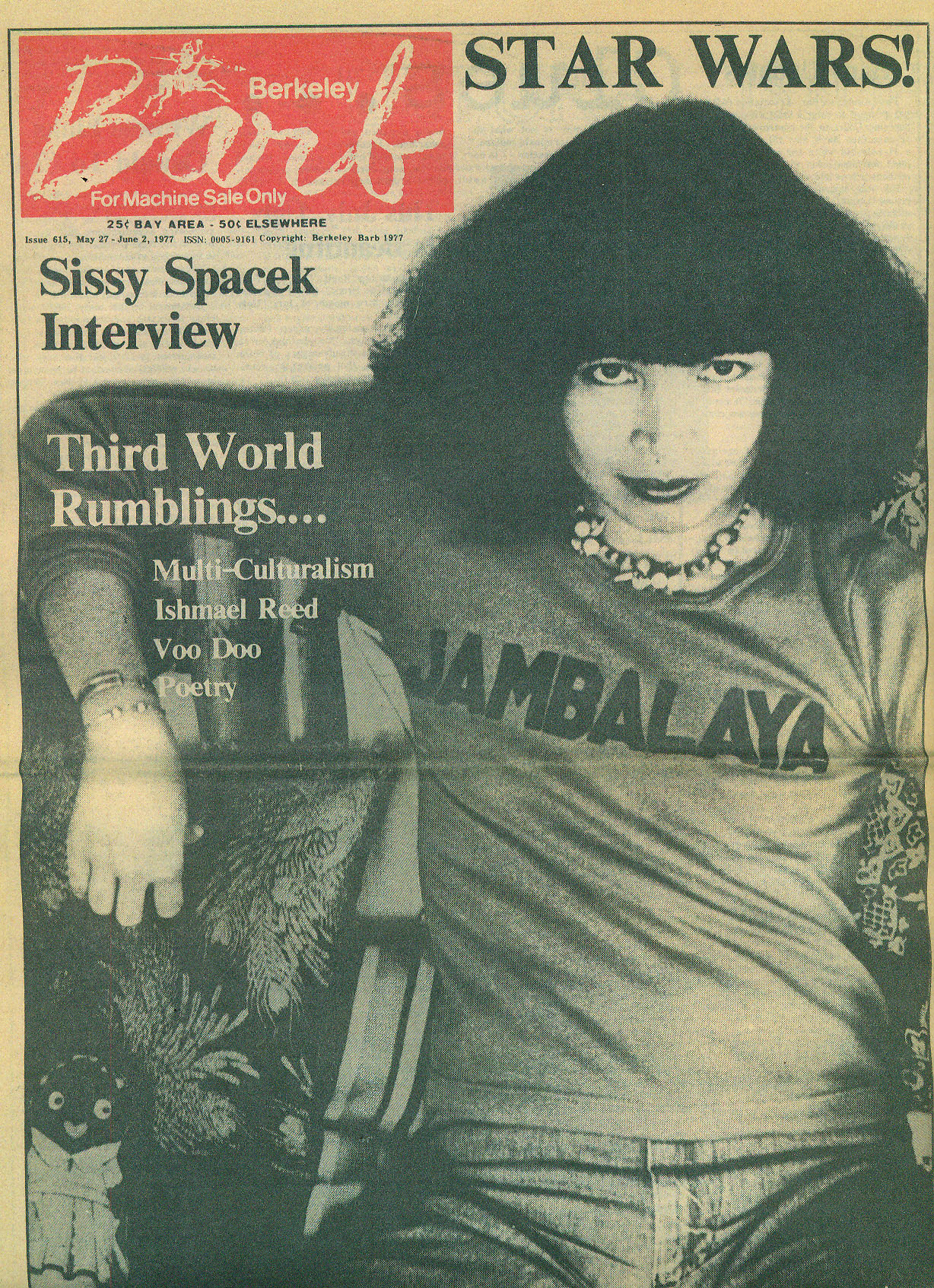 Poet cyn Zarco on a 1977 cover of the Berkeley Barb in a poetry issue edited by writer and publisher Ishmael Reed. 1977 photograph by Nancy Wong, San Francisco, California